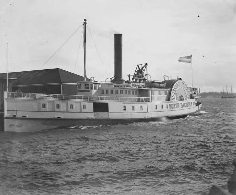 PH Coll 1179.29 North Pacific was an early steamboat built in San Francisco for E.A. and L.M. Starr. Operating in Puget Sound, on the Columbia River, and in British Columbia and Alaska, the vessel's nickname was "the White Schooner" which was not based on the vessel's rig, but rather on speed, as "to schoon" in nautical parlance originally meant to go fast. Subjects (LCSH): North Pacific (Paddle steamer); Paddle steamers--Washington (State)--Port Townsend